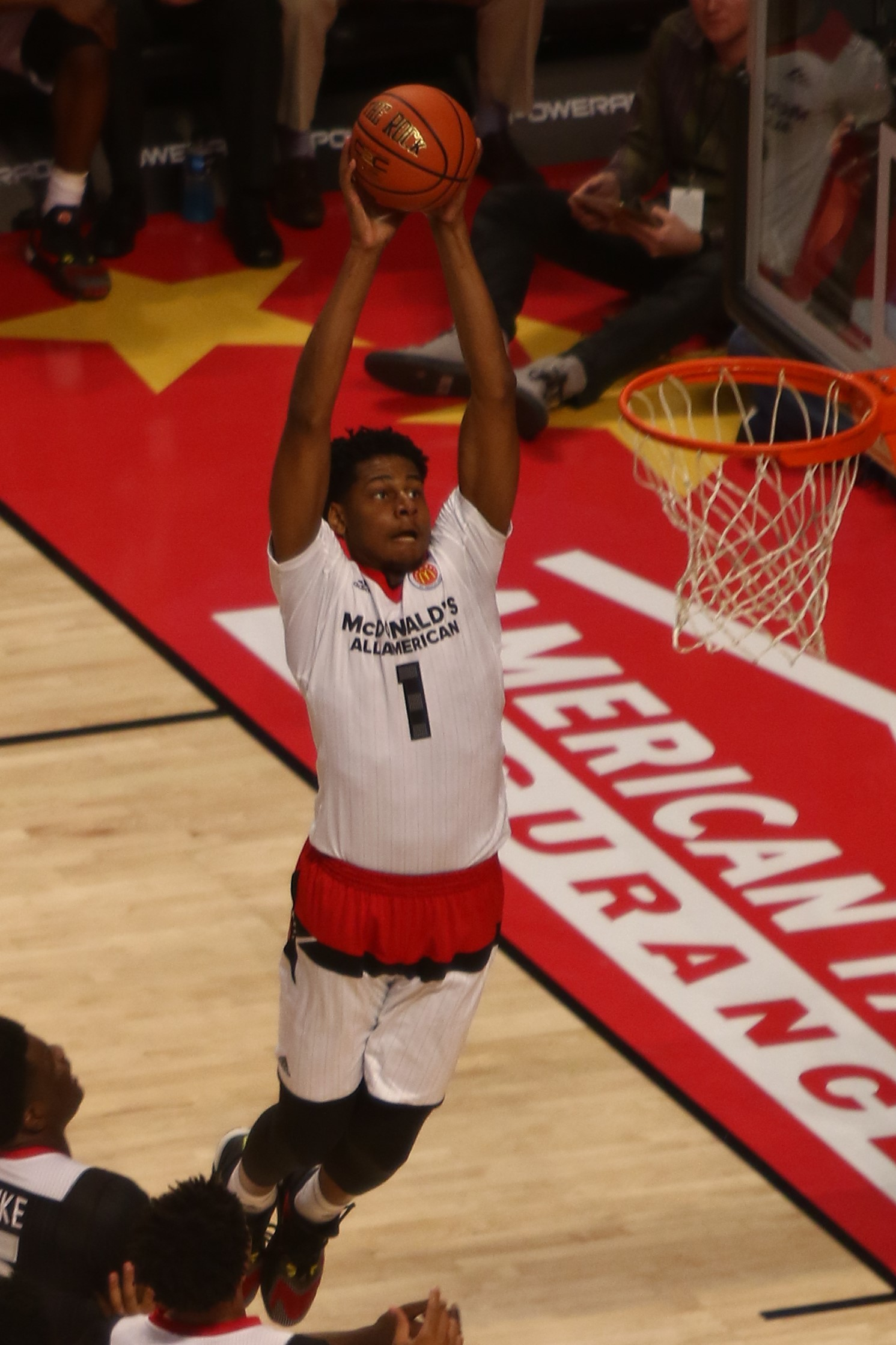 Marques Bolden at the w:2016 McDonald's All-American Boys Game